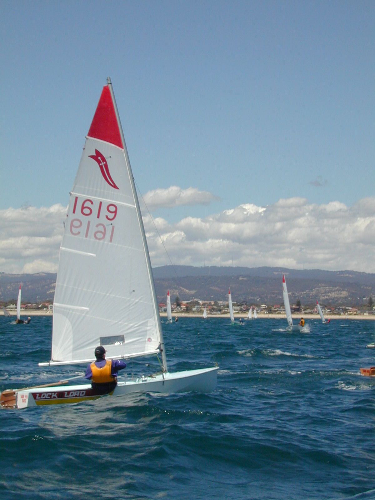 Sabre 1619 (Greg Warner) sailing at Brighton and Seacliff Yacht Club during the National 2002/2003 championships.